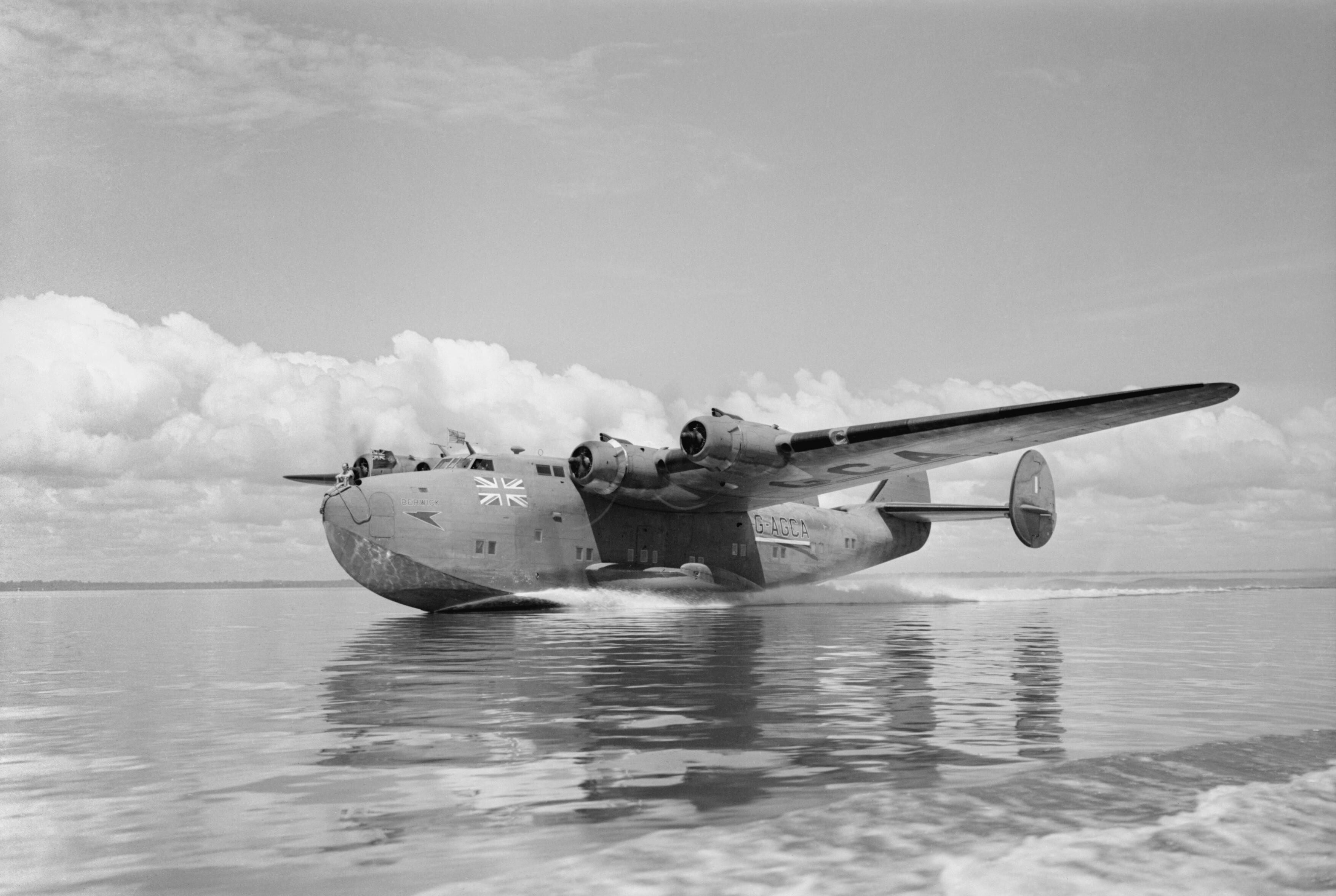 British Overseas Airways Corporation and Qantas, 1940-1945. Boeing Model 314A 'Clipper', G-AGCA "Berwick", of BOAC, lands on Lagos Lagoon, Nigeria, for moorings at the West African flying boat terminal at Iquoi .